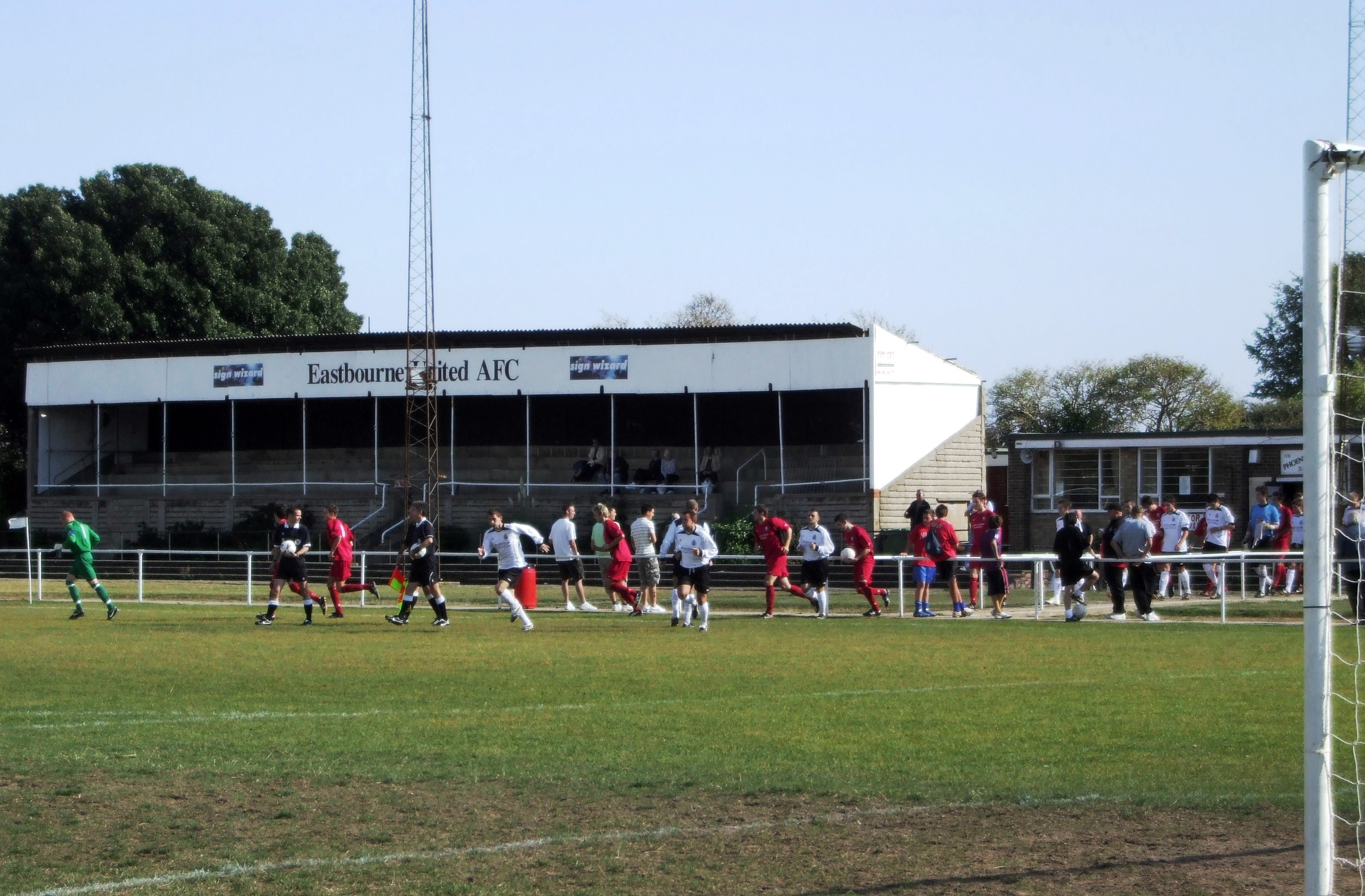 The Oval, home of Eastbourne United. 22.09.07.